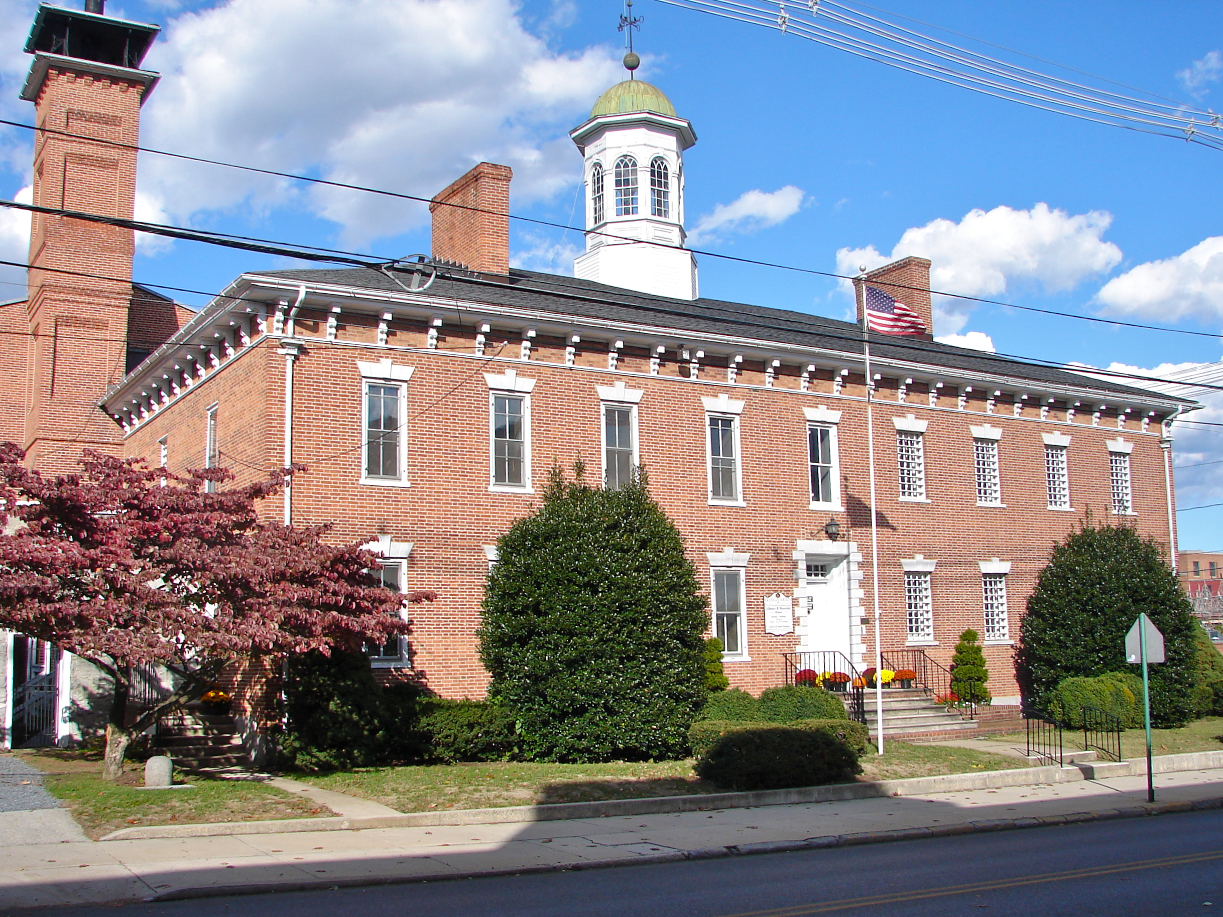 Old Franklin County Jail on the NRHP since January 21, 1970. At Northwestern corner of King and 2nd Streets, Chambersburg, Pennsylvania. Was the oldest jail building in use in Pennsylvania, but is now owned by the local historical society. Gallows in courtyard (not shown).